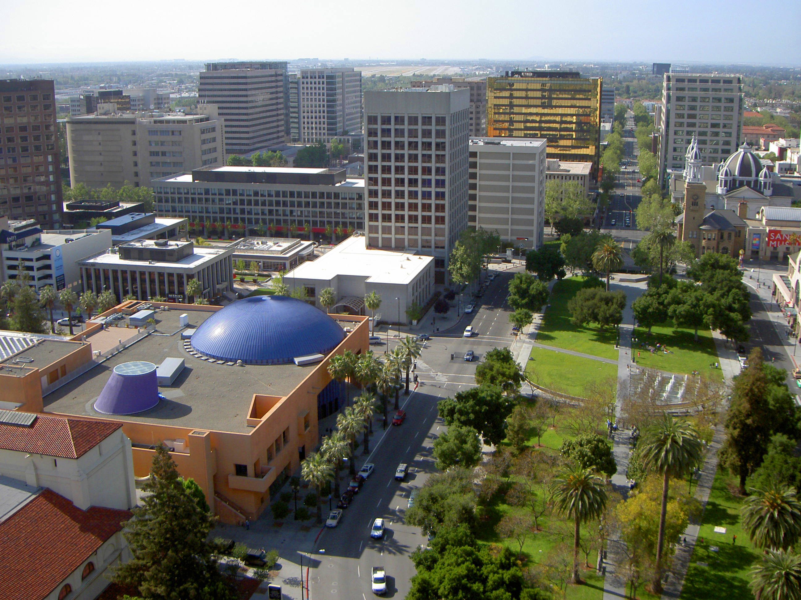 Single Shot version Taken on the same day as my panoramic. Please see: [1]